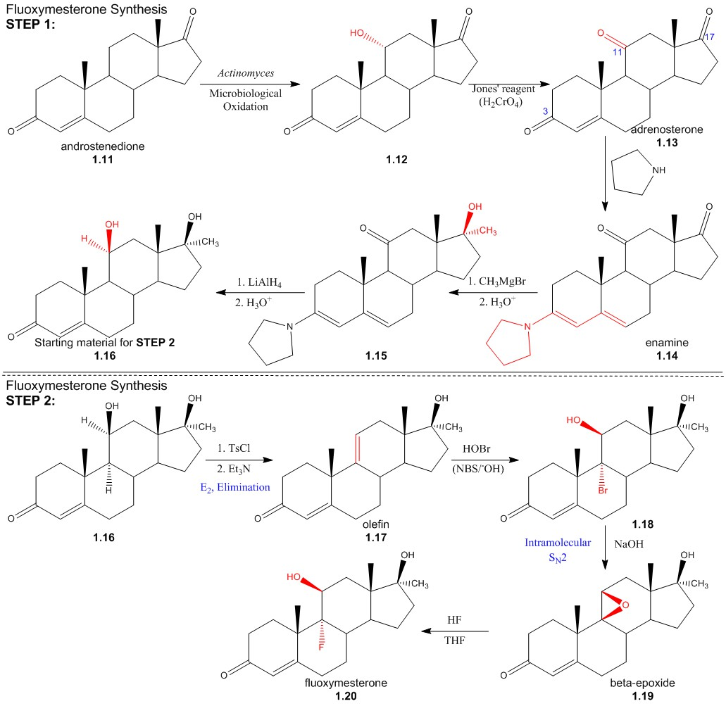 Scheme showing the synthesis of Fluoxymesterone from Testosterone